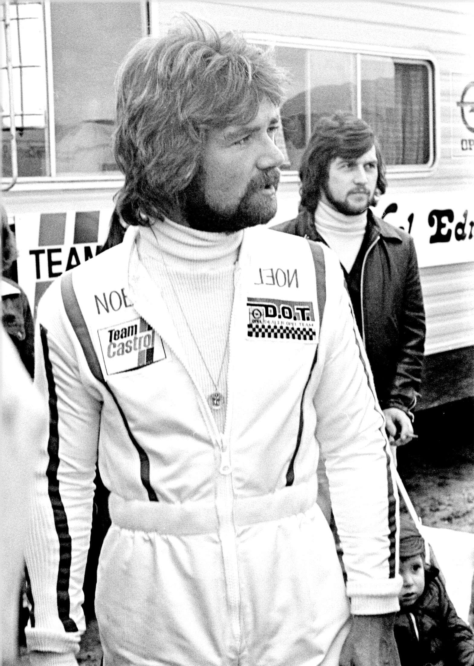 Taken at Radio 1 Raceday, Mallory Park